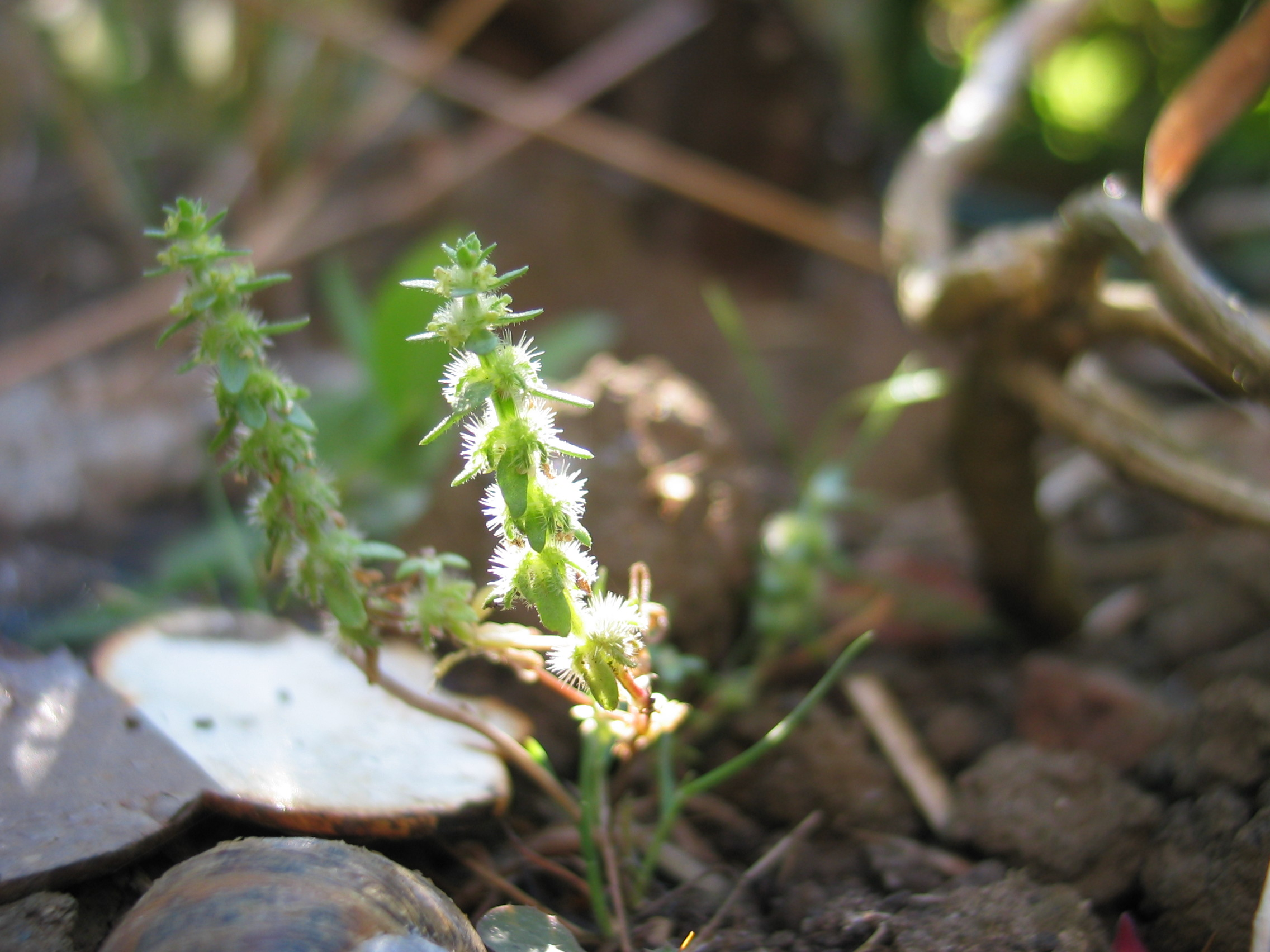 Valantia hispida (det. User:RLJ) grown in a garden in Britain from seed collected in Majorca